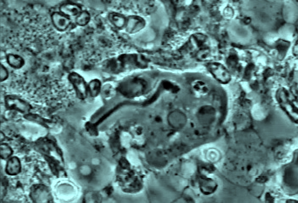 Exonucleophagy - Further advancing process of phapcytosis. Note PMN has lost its nucleous !